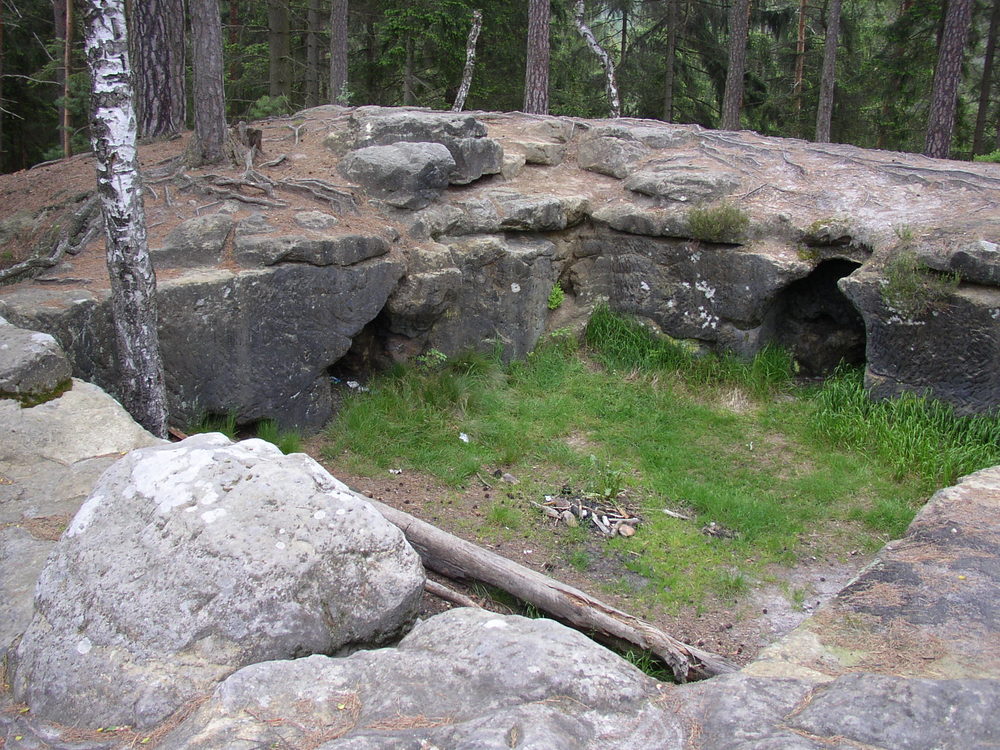 Chřibský hrádek, Doubice, Děčín District, Ústí nad Labem Region, the Czech Republic